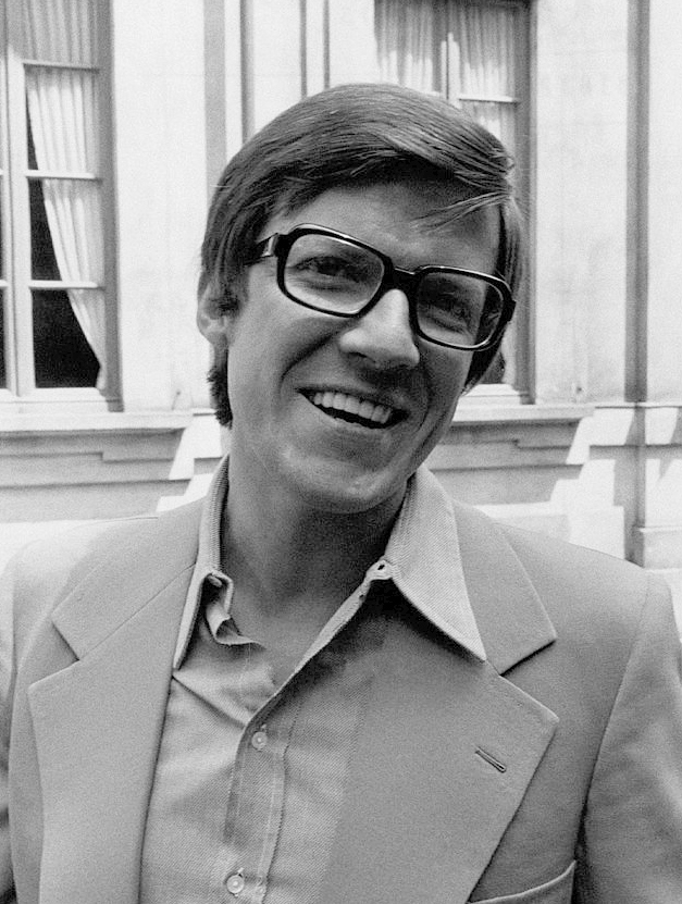 Portrait of Italian TV presenter, sailor and explorer Ambrogio Fogar smiling. Milan, 1972.